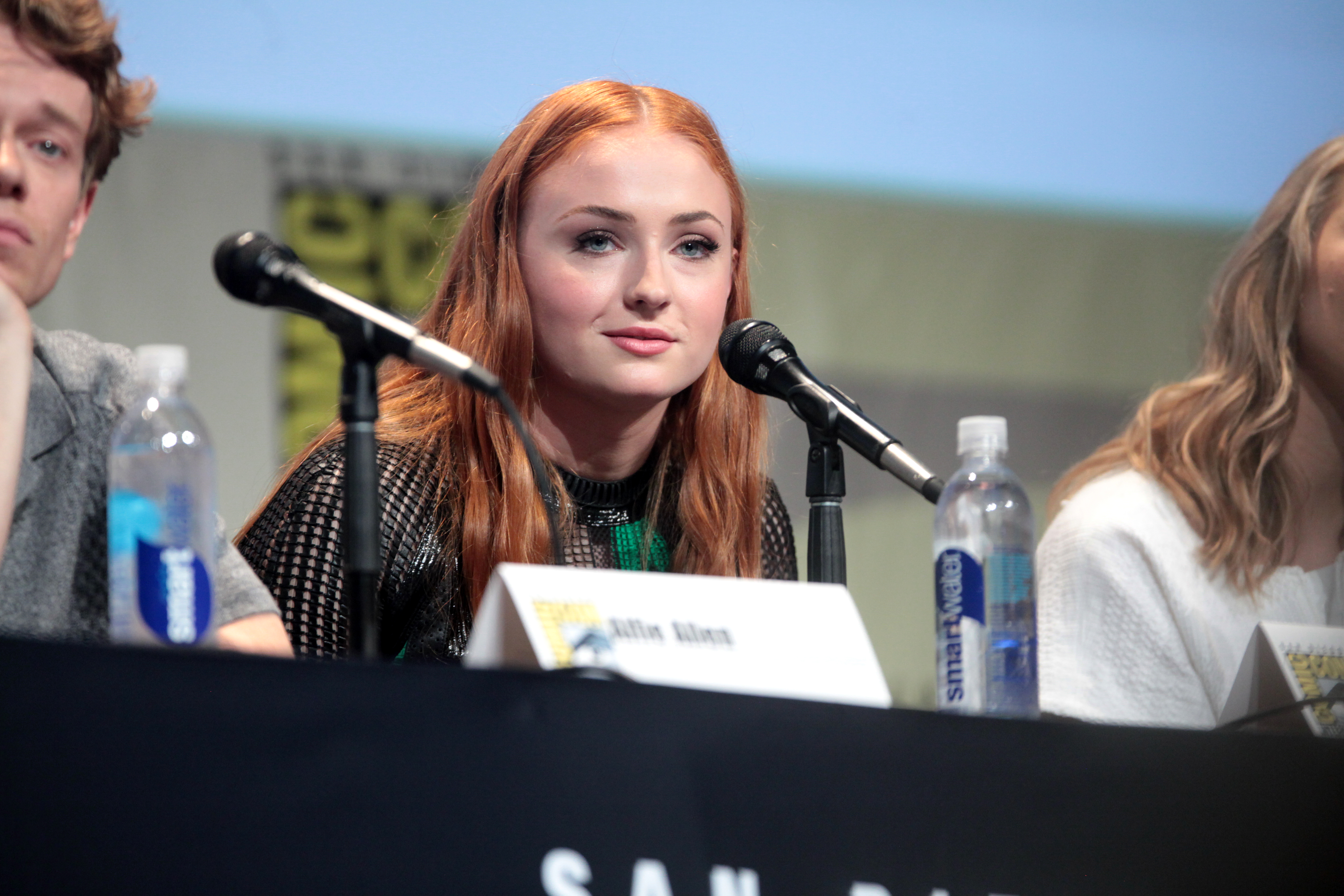 Sophie Turner speaking at the 2015 San Diego Comic Con International, for "Game of Thrones", at the San Diego Convention Center in San Diego, California.